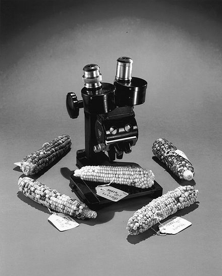 Photograph of Barbara McClintock's ears of corn (five) and a microscope.